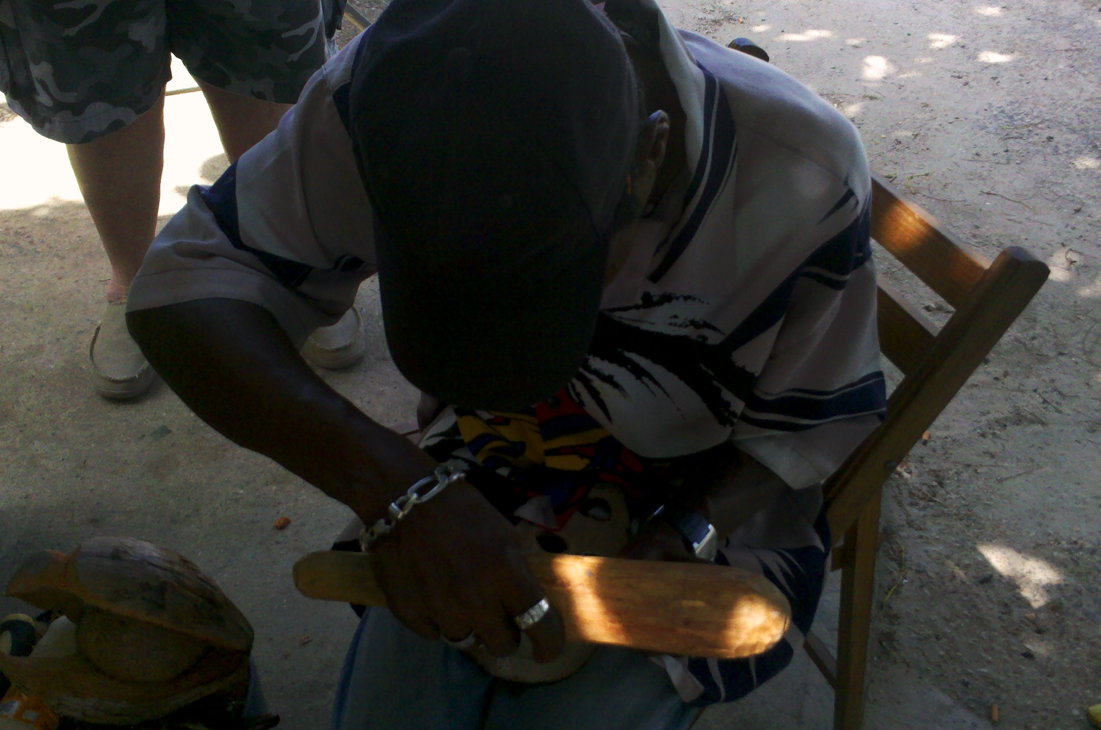 Roadside Jamaican woodcarver outside of Bodden Town, Grand Cayman